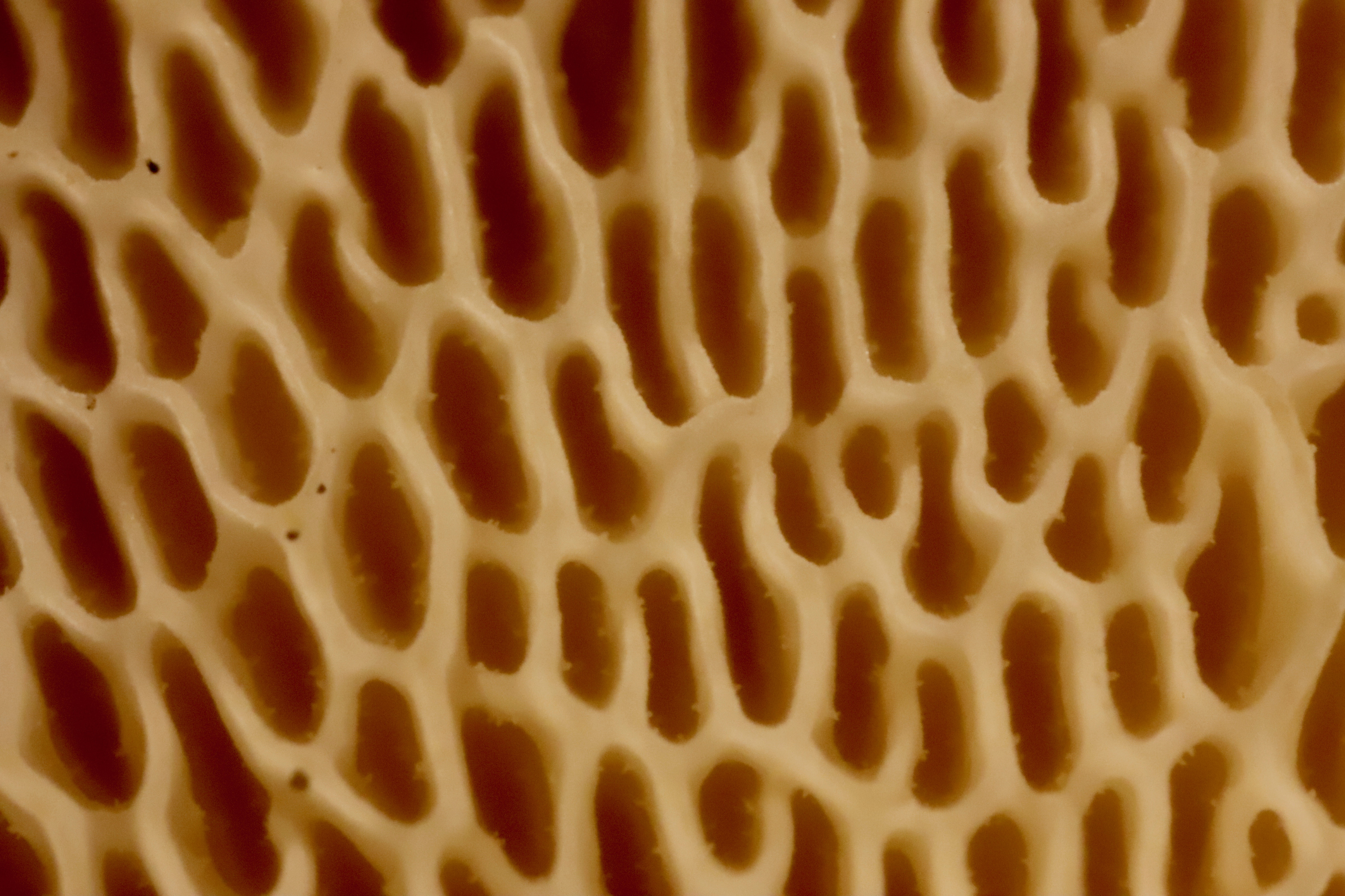 Detail of hymenophore of Neofavolus alveolaris ; Hymenophore, the spore-bearing structure, of Neofavolus alveolar. The pores on the cap underside are elongated hexagonal